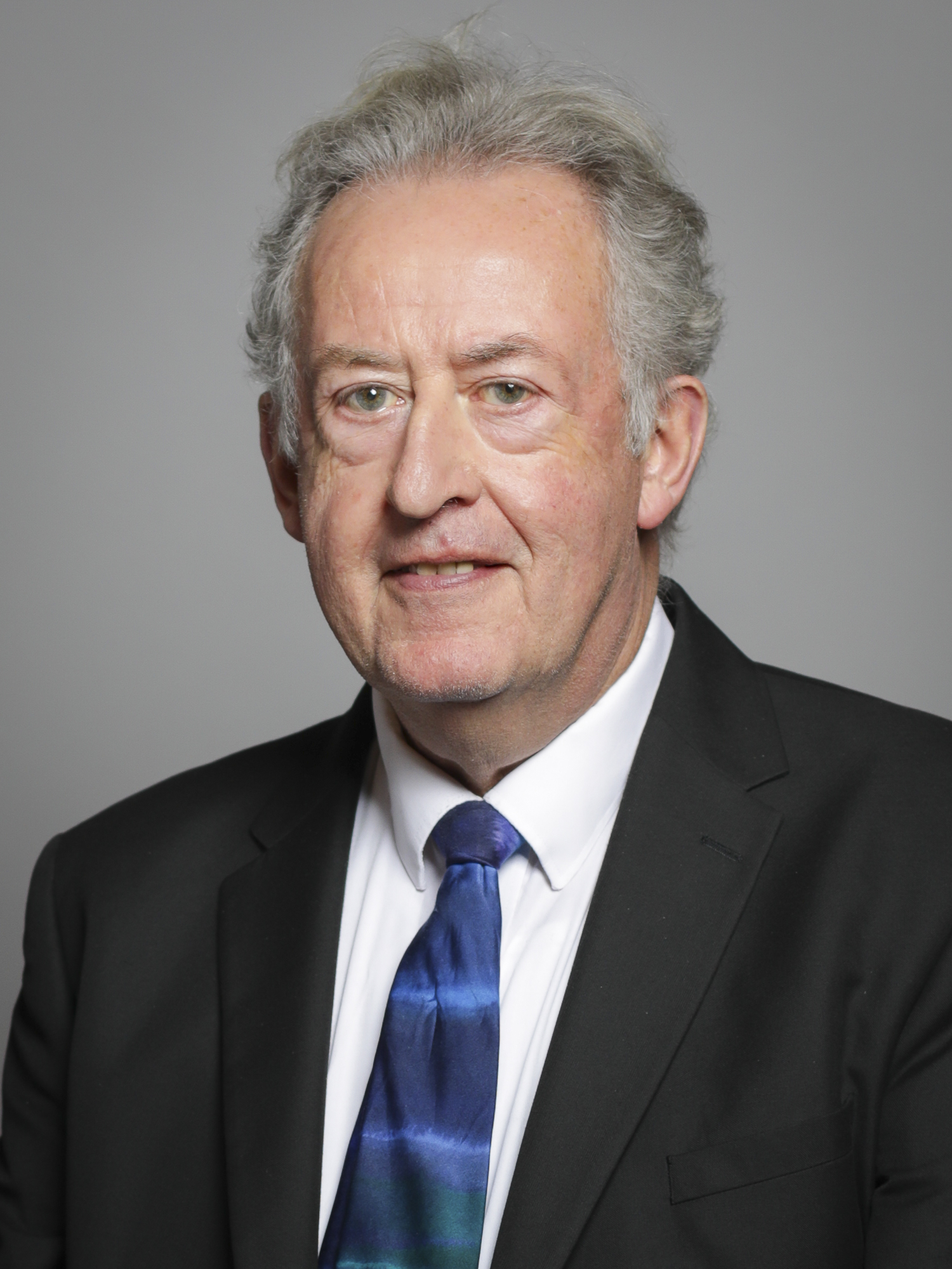 Official portrait of Lord Stevenson of Balmacara 3×4 portrait of Lord Stevenson of Balmacara